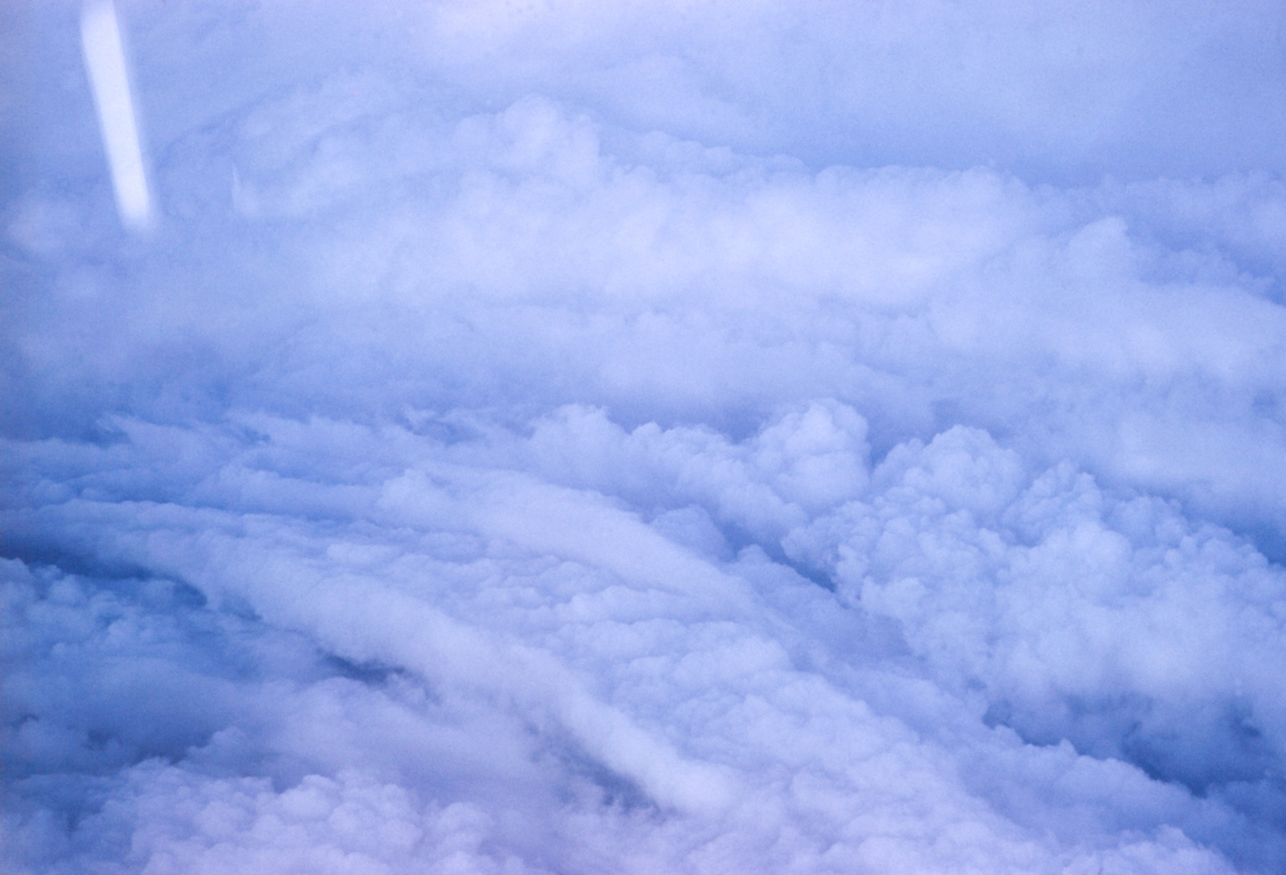 Eye of Hurricane Esther viewed from Hurricane Hunter Plane. link